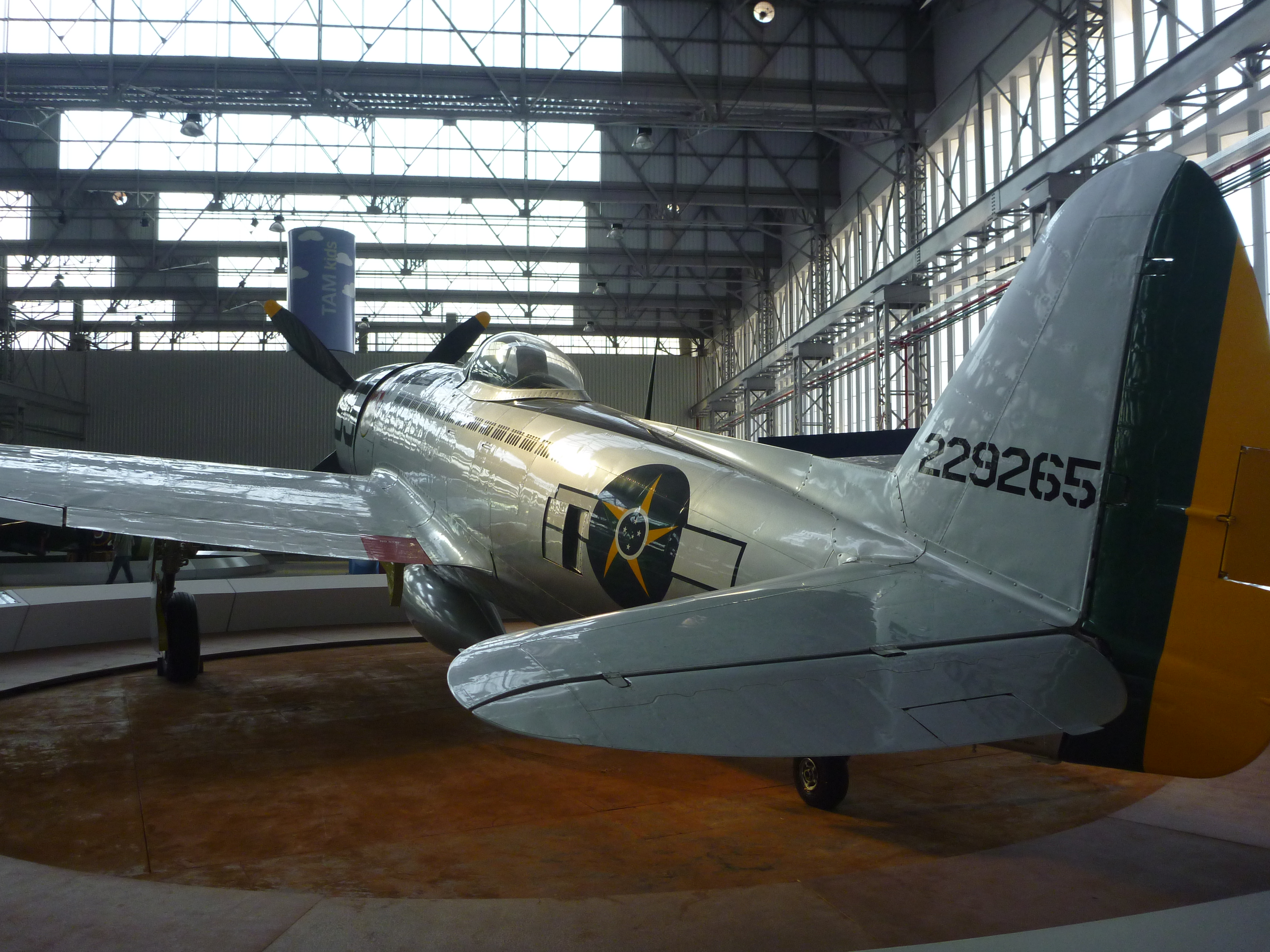 Airworthy airplane belonging to the Brazilain Air Force, on display at TAM Museum, São Carlos - São Paulo State - Brazil